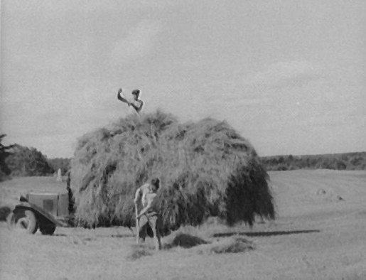 Two men loading hay on a truck, photographed in Massachusetts